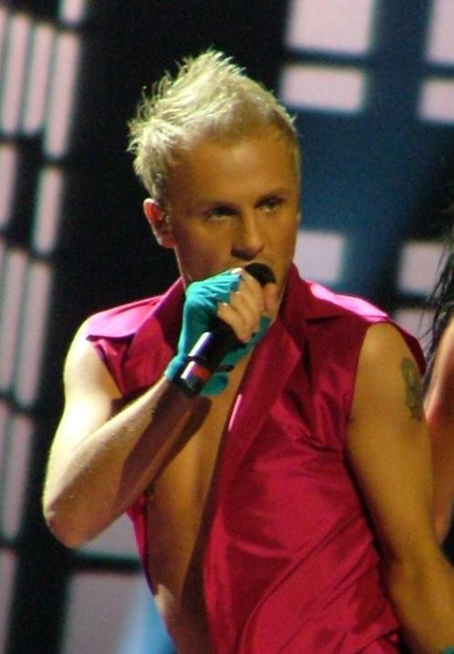 Deen during a rehearsal at the Eurovision Song Contest 2004 in Istanbul